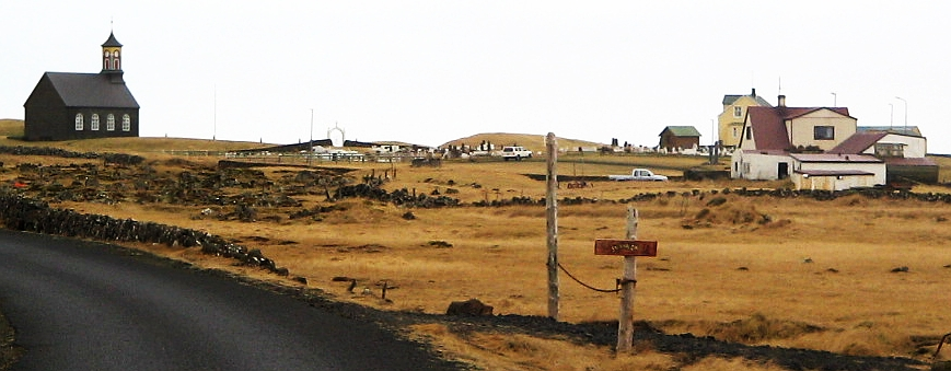 Hvalsnes, Reykjanes Peninsula, Iceland Picture taken by me on March 28, 2005 with a Canon Powershot